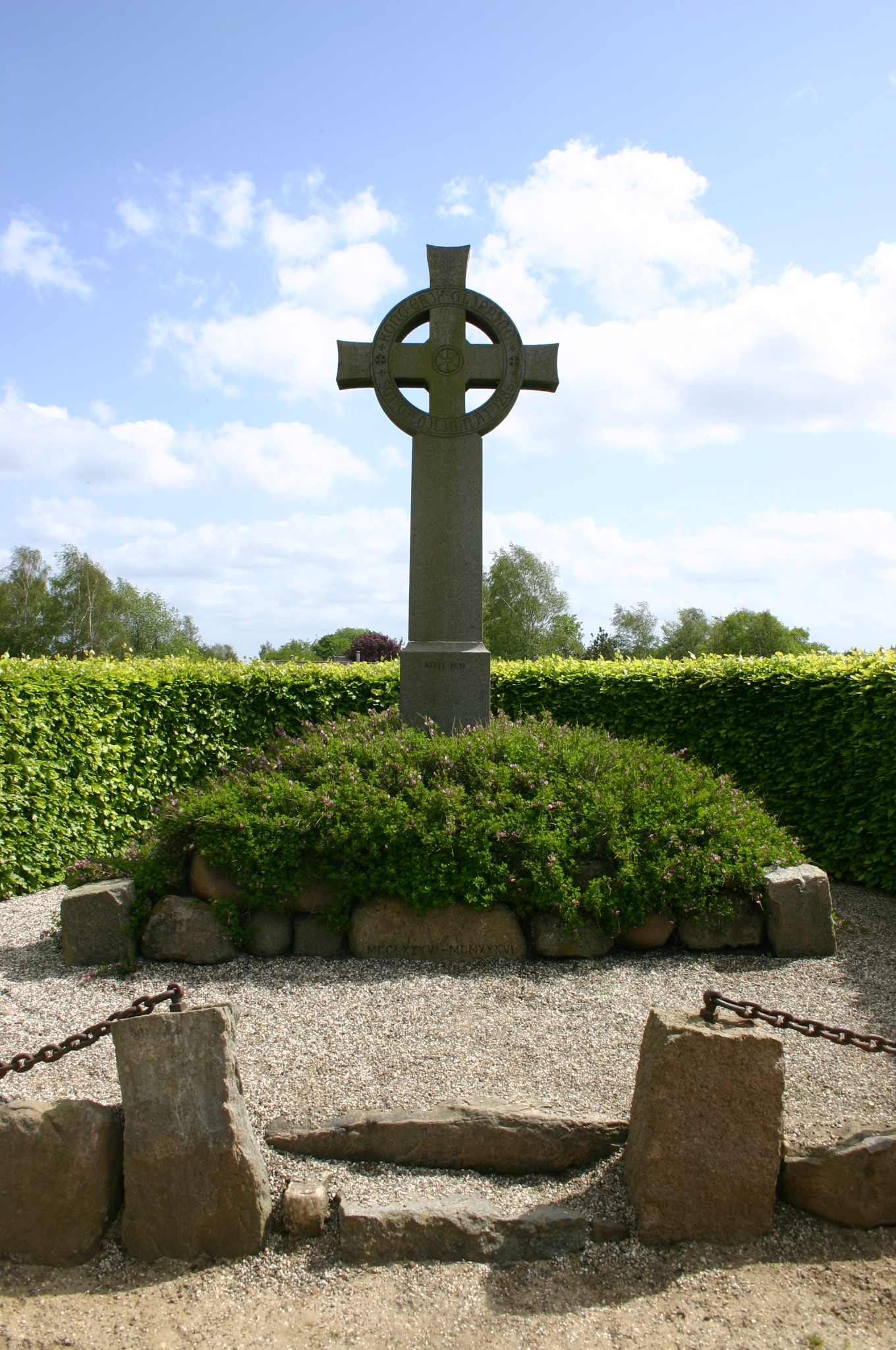 Monument in Finderup close to Viborg, Denmark at the place where king Erik Glipping of Denmark was murdered on November the 22nd 1286.